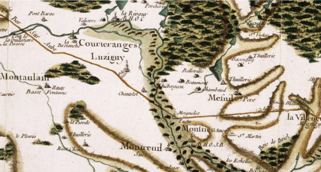 Portion of Cassini map showing the Montieramey abbey, Aube departement, Burgundy, France. The abbey is in the lower part of the picture, north-east of Montreuil (Montreuil-sur-Barse). It is spelled "Monƒtier-Amey", an uncommon spelling, followed by the initials "AB. H.O.S.B., standing for "Abbaye d'Hommes Ordre Saint Bernard" (Men Abbey Order of Saint Bernard). The abbey is located on the river Barse, which flows north towards the Larrivour abbey (near the upper edge of the picture). The latter is "AB. H. O. C.", a men abbey of the cistercian order. The valley is woody all along, joining with the larger forêt d'Orient north-east. The road from Troyes (hardly 20 km north-east) to Bar-sur-Aube (32 km east) passes 1 km north of Montieramey. The village of La Villeneuve Egrigny on the right edge of the picture is now called La Villeneuve-au-Chêne.